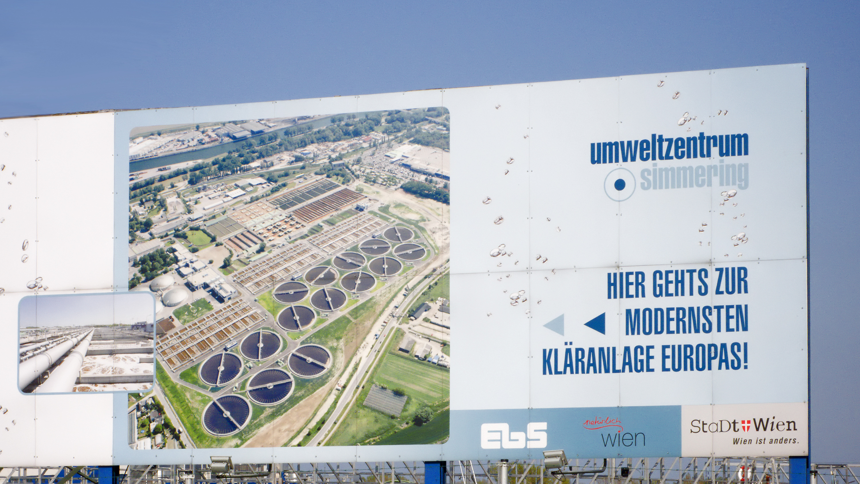 Sewage treatment plant Hauptkläranlage Wien in Vienna Simmering